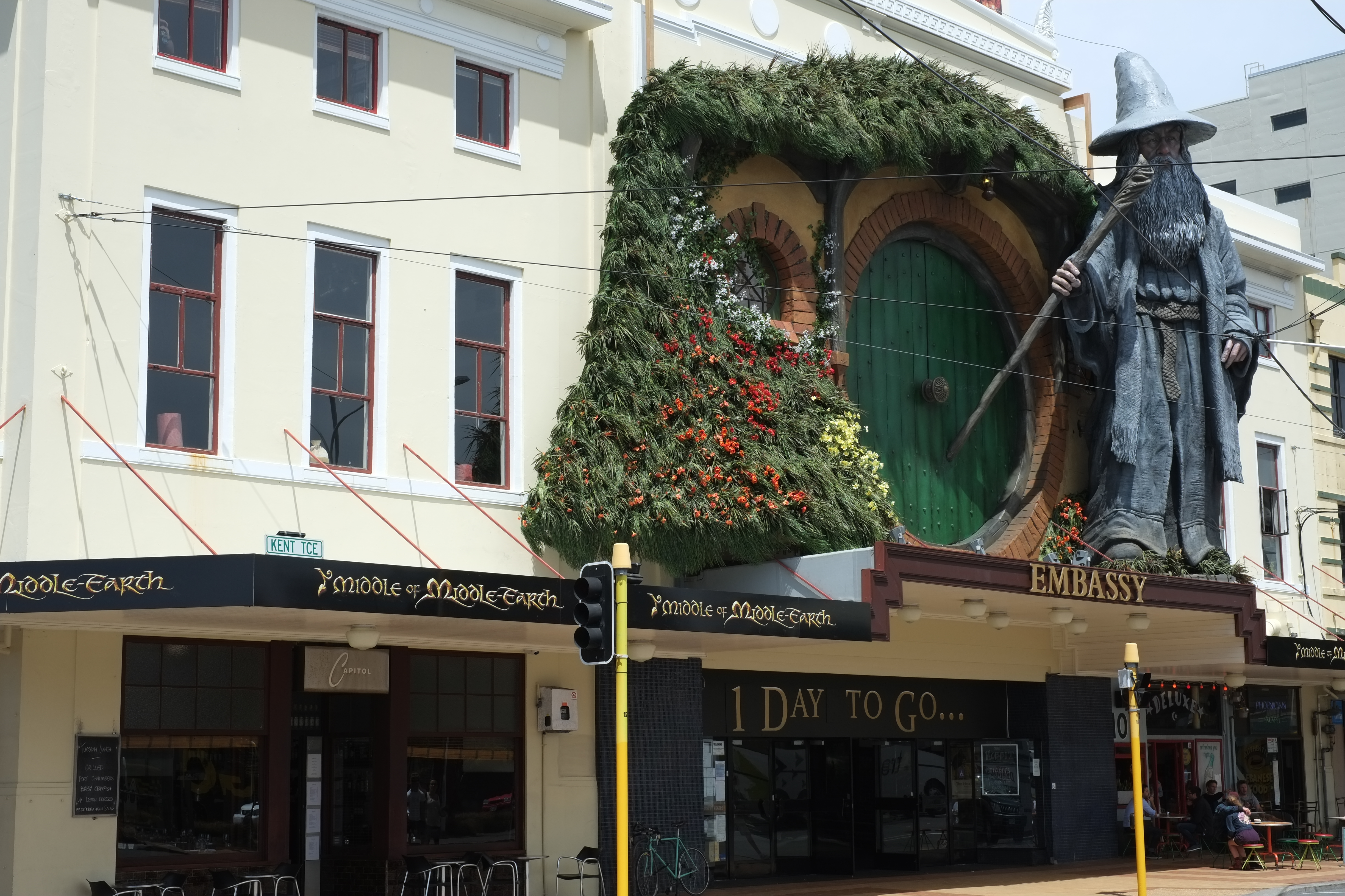 Bagend and Gandalf sculpture on top of The Embassy Theatre, Wellington one day before The Hobbit world premiere